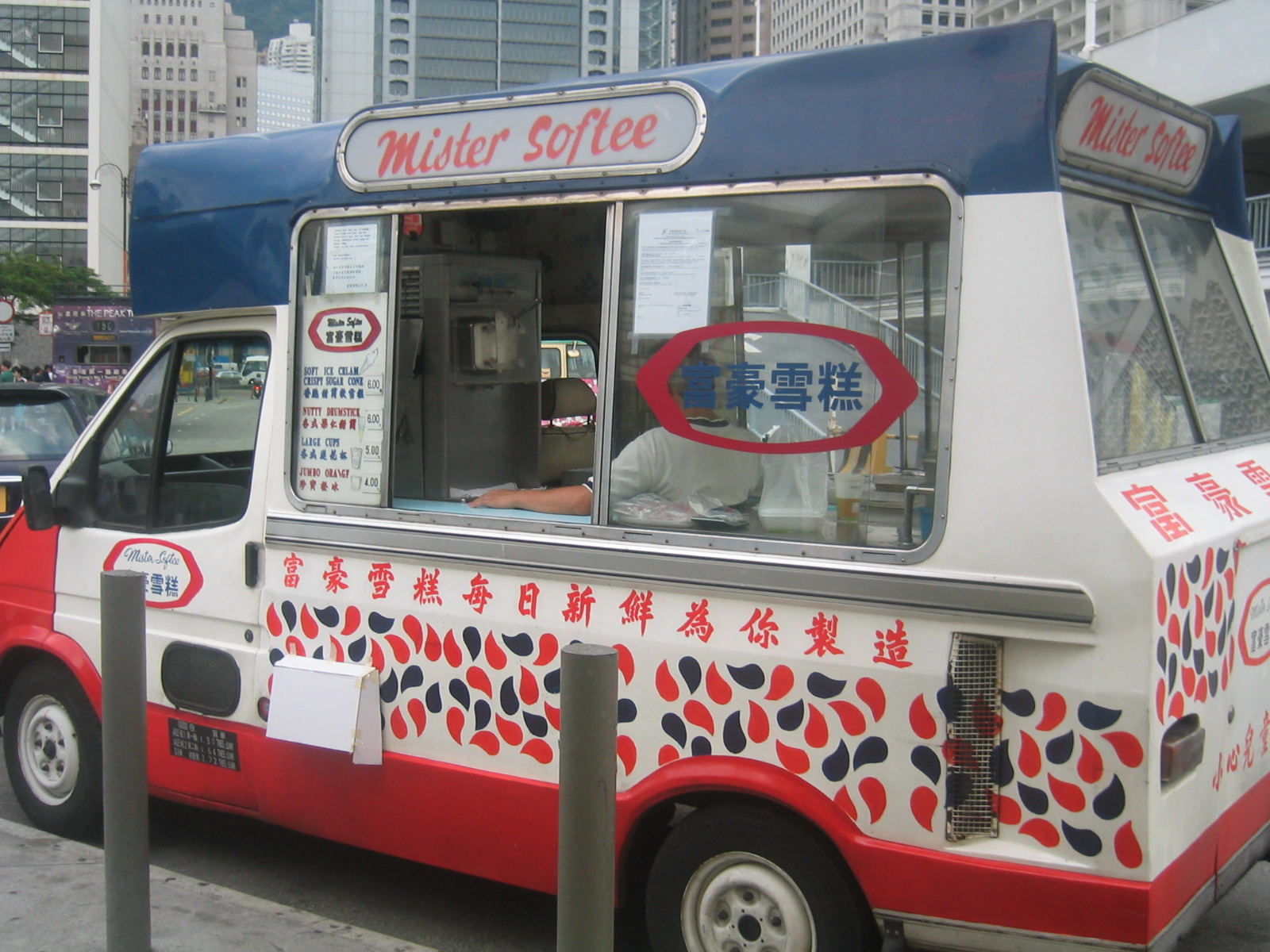 A Mister Softee ice-cream car at Hong Kong